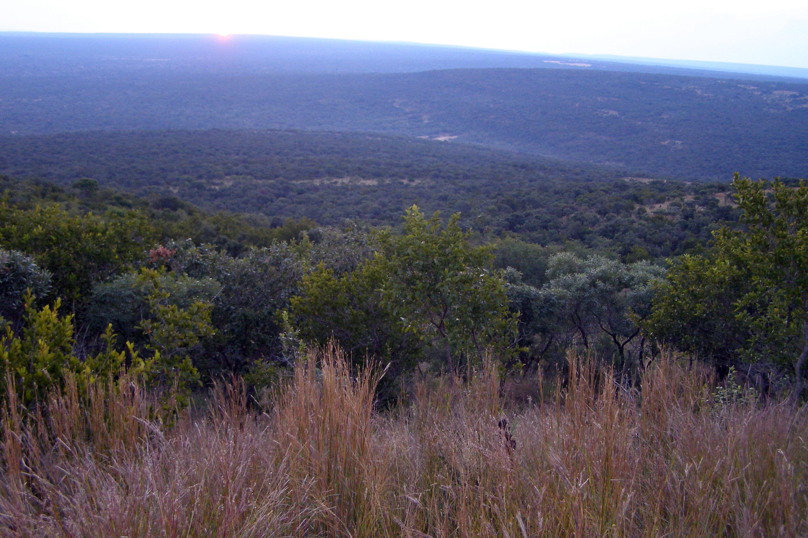 Bushveld, Waterberg Biosphere, South Africa. May, 2006.